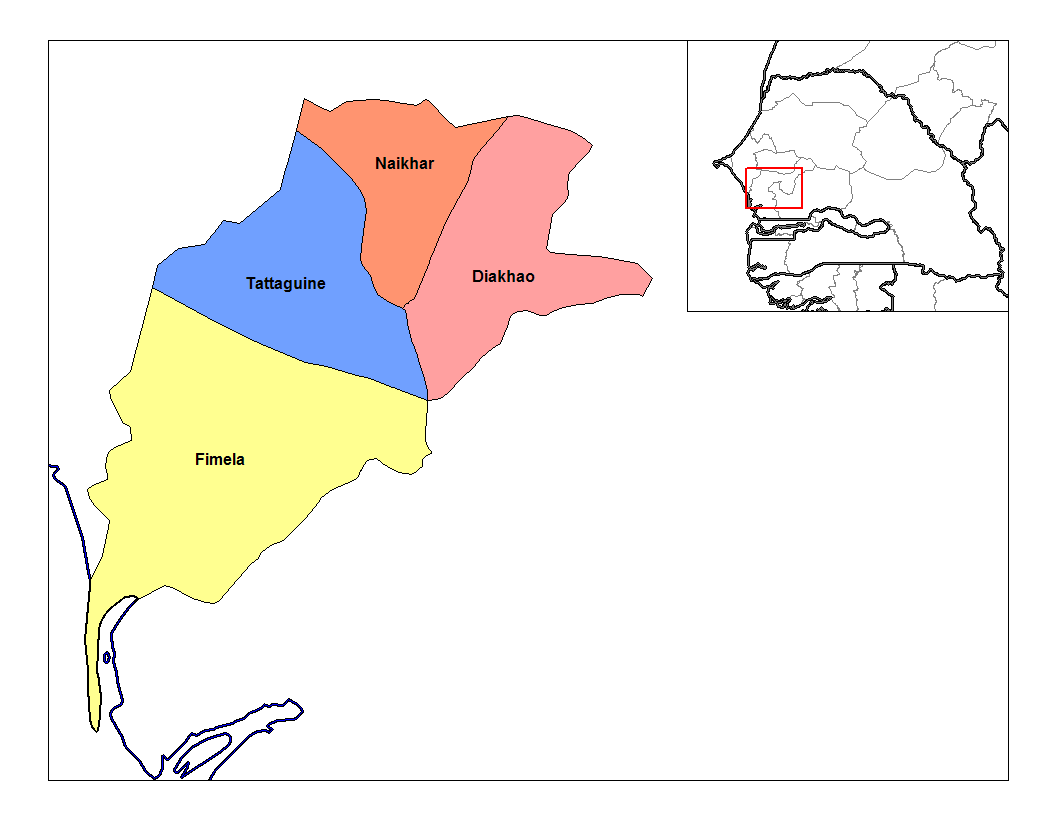 Map of the arrondissements of Fatick department in Senegal.